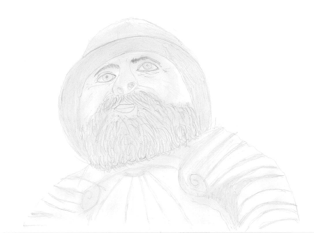 A fictional portrait of a Hussite priest and general. Pencil drawing.